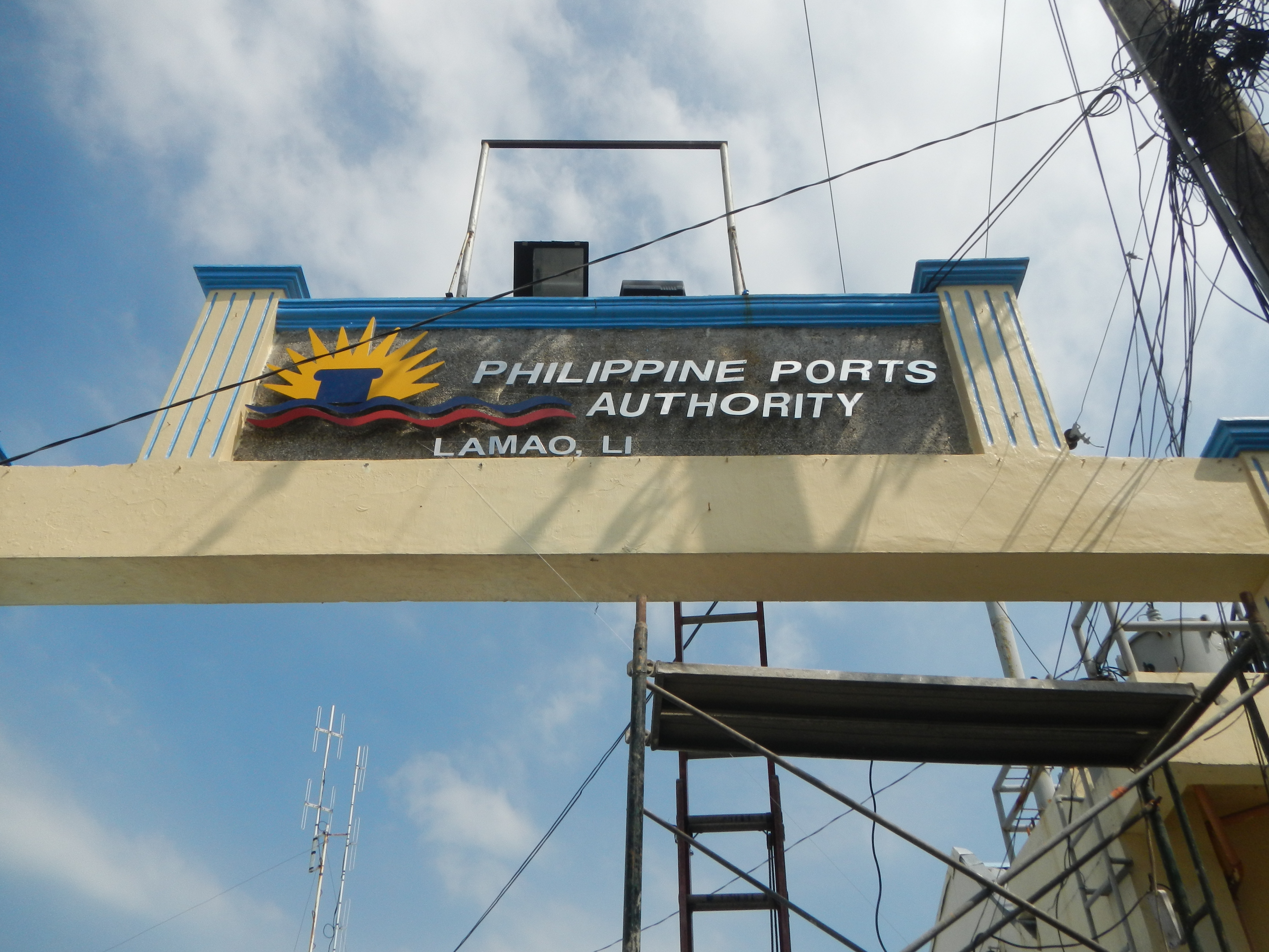 Lamao, Bataan, Limay, Bataan, Bataan Province, Barangays of Bataan, Lamao, Limay, New Bataan Public Market, under construction, (Hall, Philippine Ports Authority and Pier, along Manila Bay, in Sitio Ayam, seashore, oil refineries, San Roque Parish and Diocesan Shrine along Rizal street, Old National Road, from the Mariveles, Bataan Welcome Arch-sign in Limay, Bataan connected by the Lamao, Limay, Bataan Bridge and Creek K0 142+692, gateway to Town Proper neighbors Barangays Alangan, Duale, Townsite, Poblacion, Limay, Bataan, Bataan Province, all along Limay, Bataan National Road, interconnecting with the Orion-Pilar-Bagac-Morong Bataan National Road gateway to the Bataan Provincial Expressway (Mariveles-Limay, Bataan section) beside the Bataan Provincial Expressway (Orion-Pilar, Bataan section) of the Bataan Provincial Expressway also known as the Roman Expressway or the Roman Superhighway, interconnecting with and into Olongapo-Gapan Road).